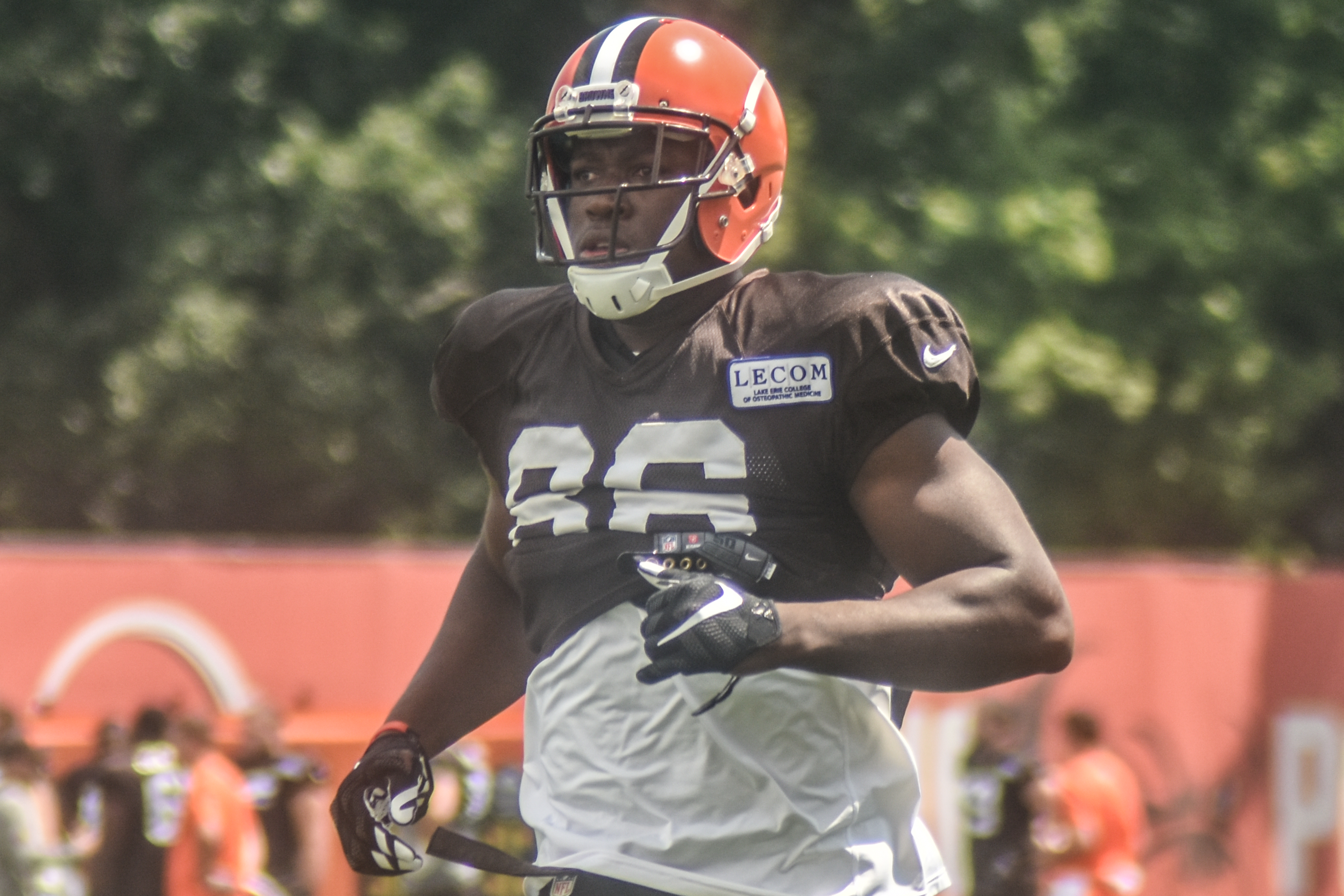 2016 Cleveland Browns Training Camp (#86 Randall Telfer)